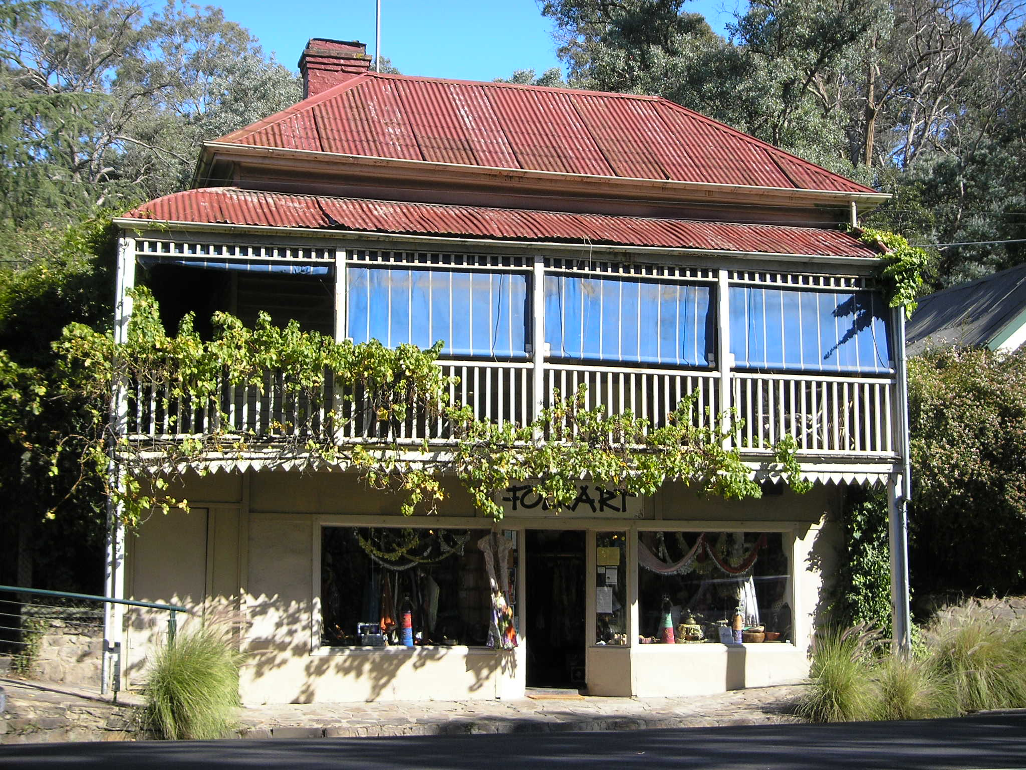 An Early Victorian house of the late 1800's, converted into a shop, on Yarra Street, Warrandyte. Image taken by me in 2006.